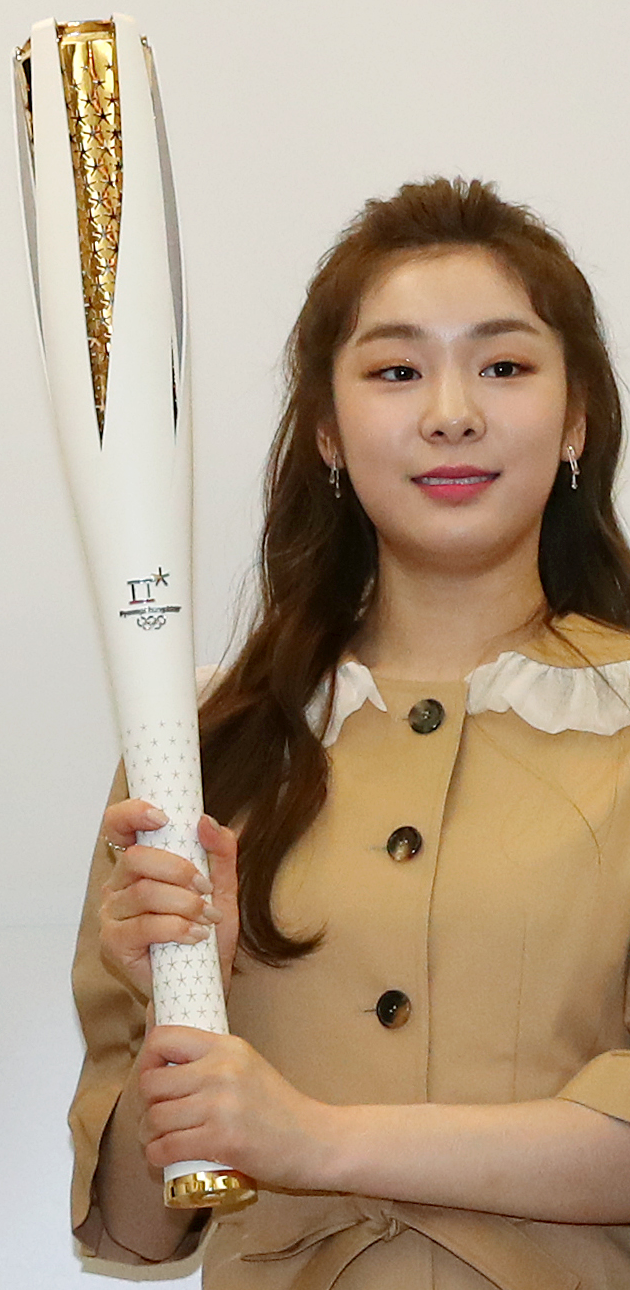 PyeongChang 2018 Torch (Crop)